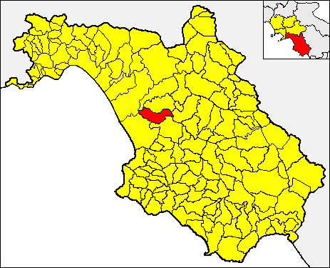 Locator map of the municipality of Albanella (red) within the Province of Salerno